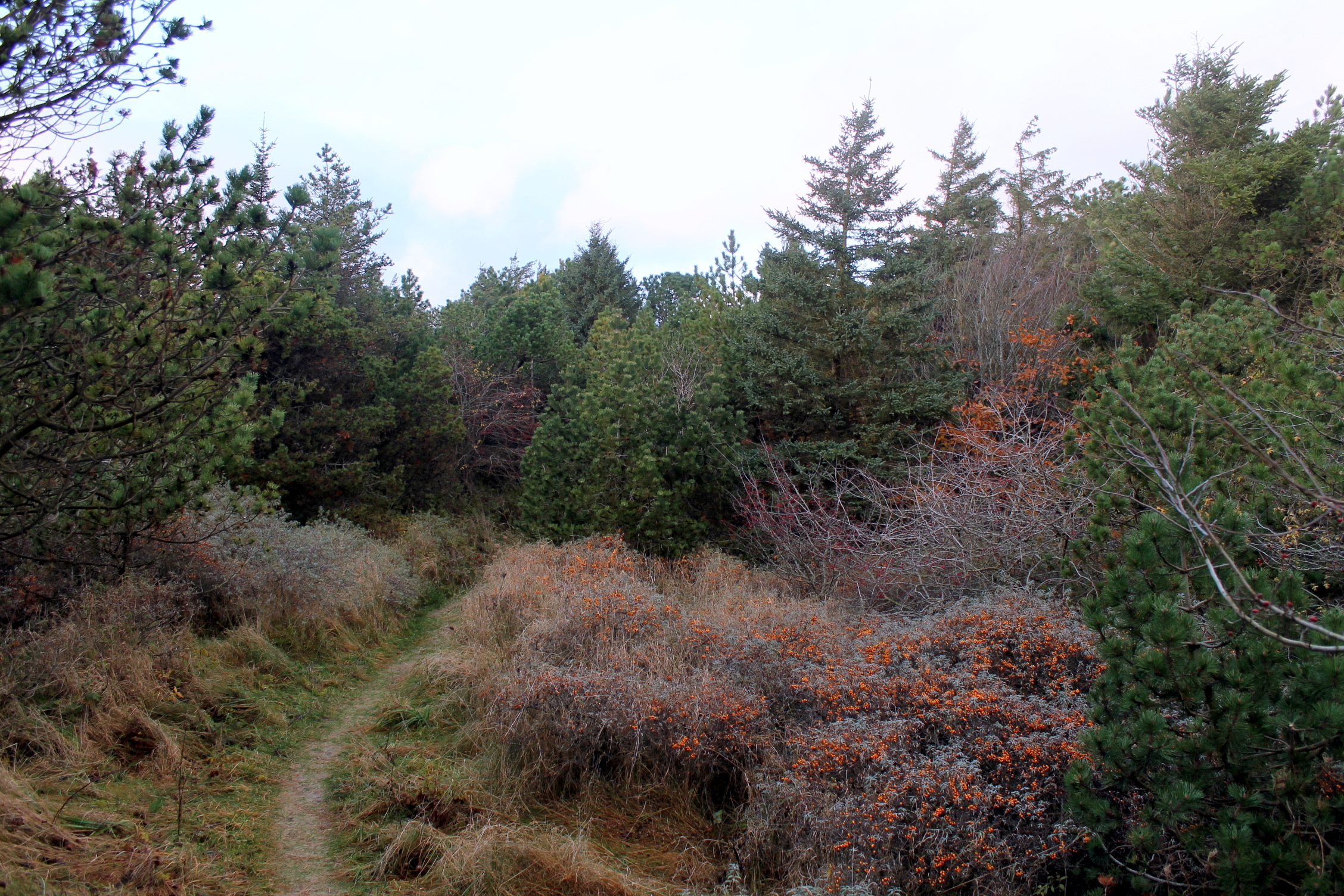 The Rubjerg Knude forest plantation in Denmark